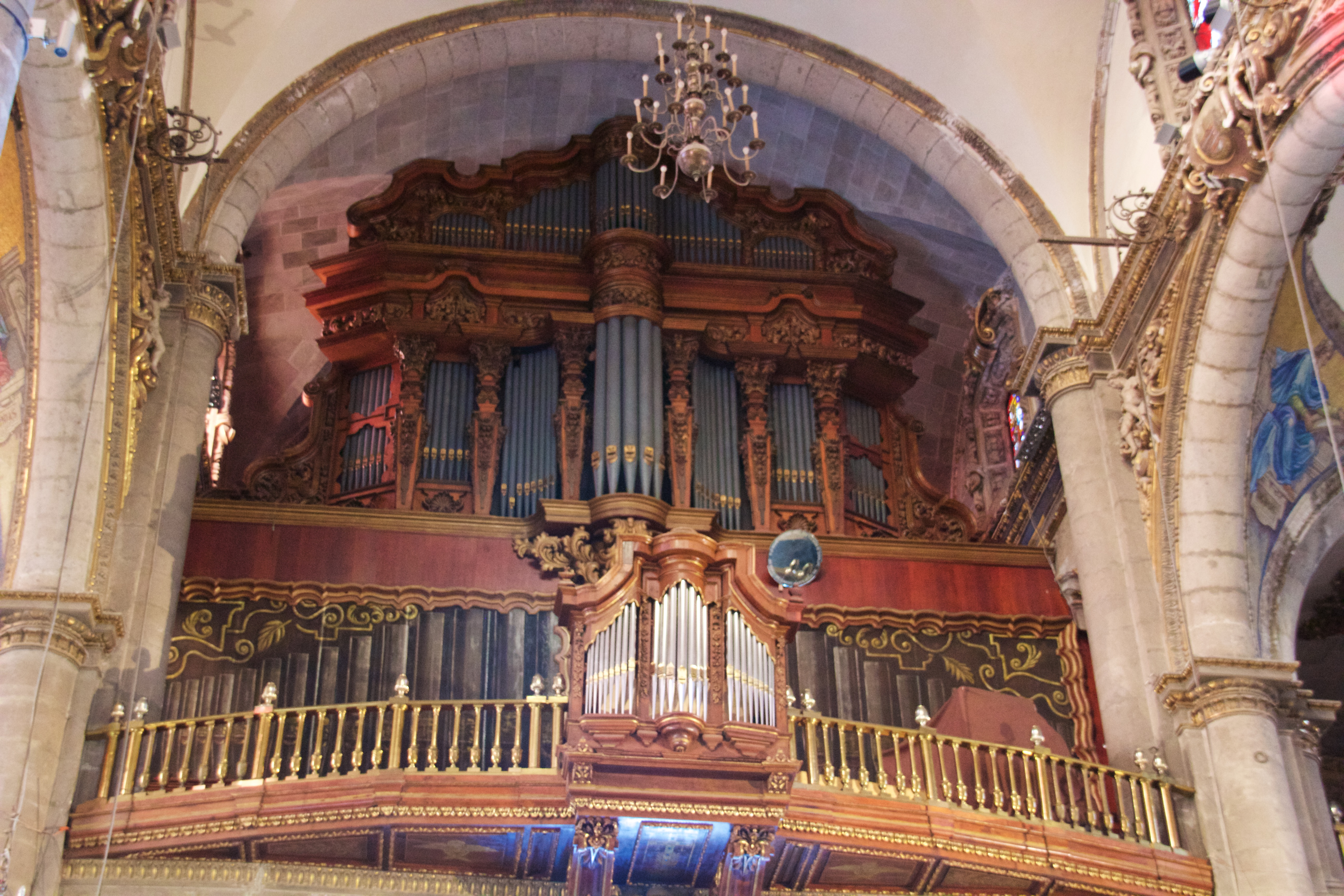 Basilica of Our Lady of Guadalupe, Mexico, part of Wiki Loves Pyramids.